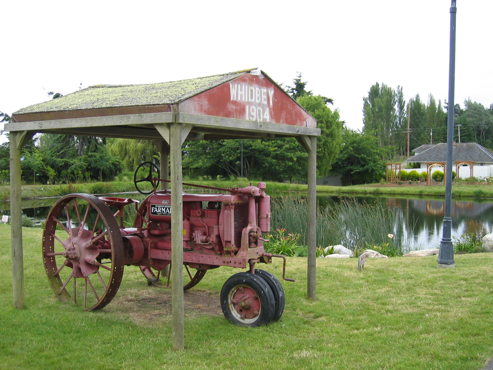 A tractor at Greenbank Farm, Island County Washington: McCormick Farmall F-14